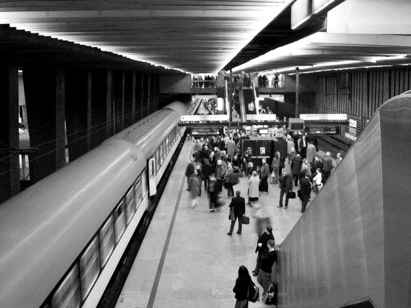 One of the platforms at Warszawa Centralna / Warsaw central station, Poland.